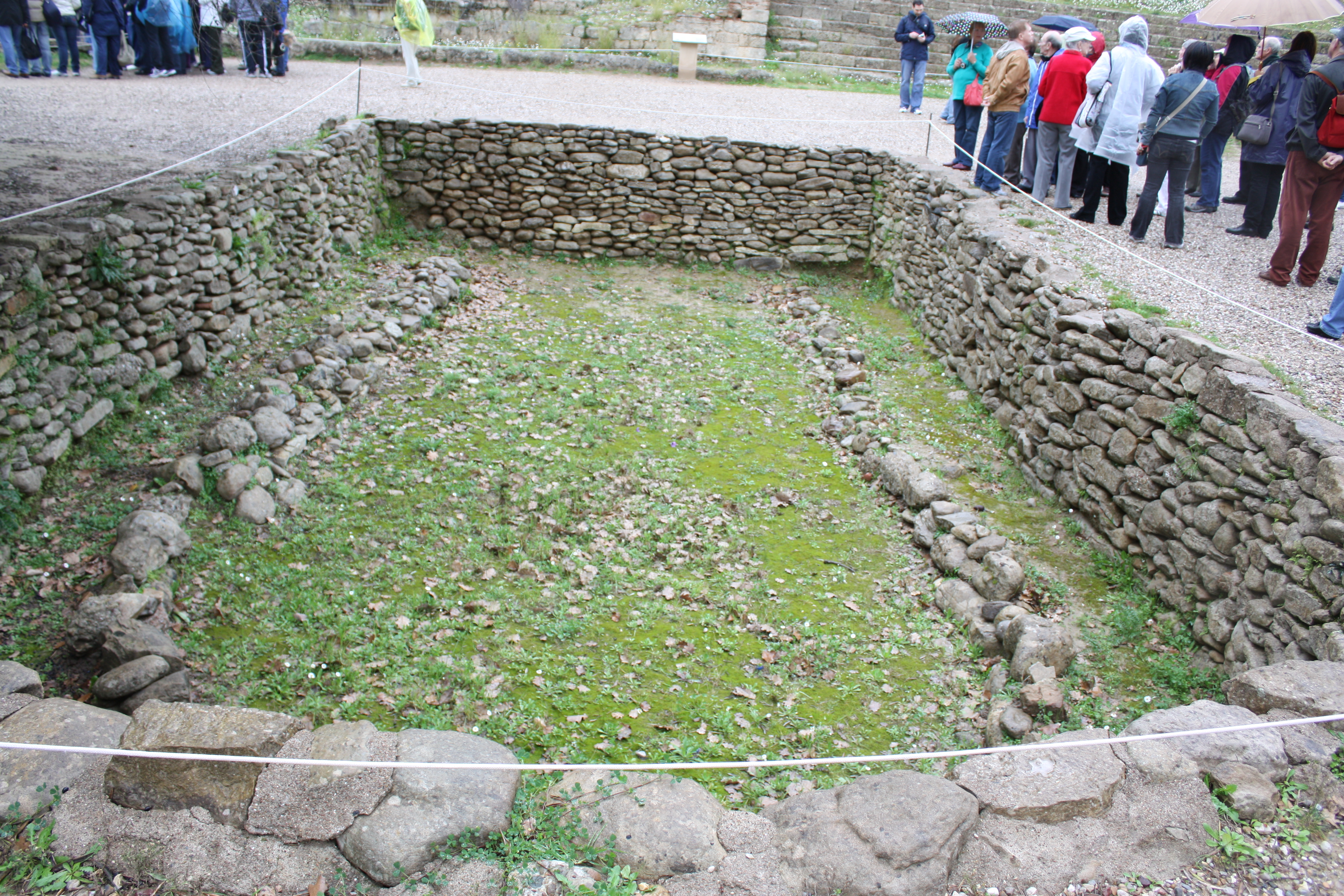 Prehistoric building in northern Olympia, Greece. According to nearby signs, Wilhelm Dörpfeld and Fritz Weege discovered this and other houses in 1908. They date to the late Early Helladic III period or later, 2150-2000 BC.